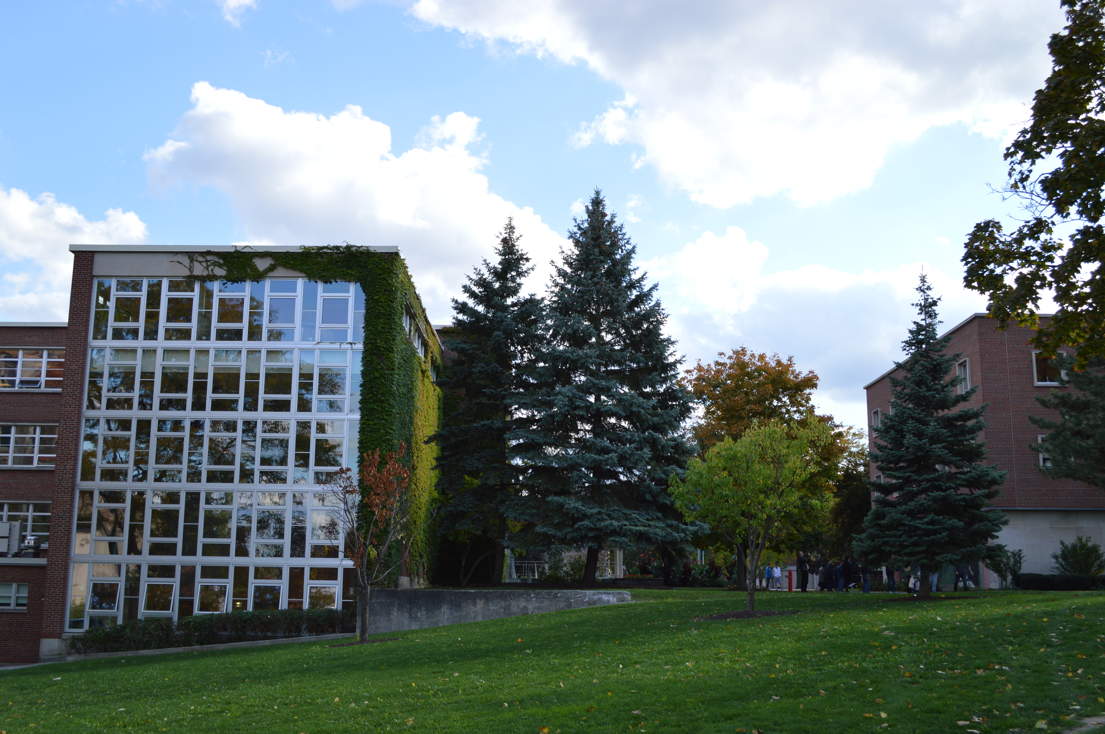 Eastside, Syracuse, NY, USA